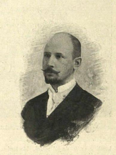 Jenő Jendrassik (1860-1919)